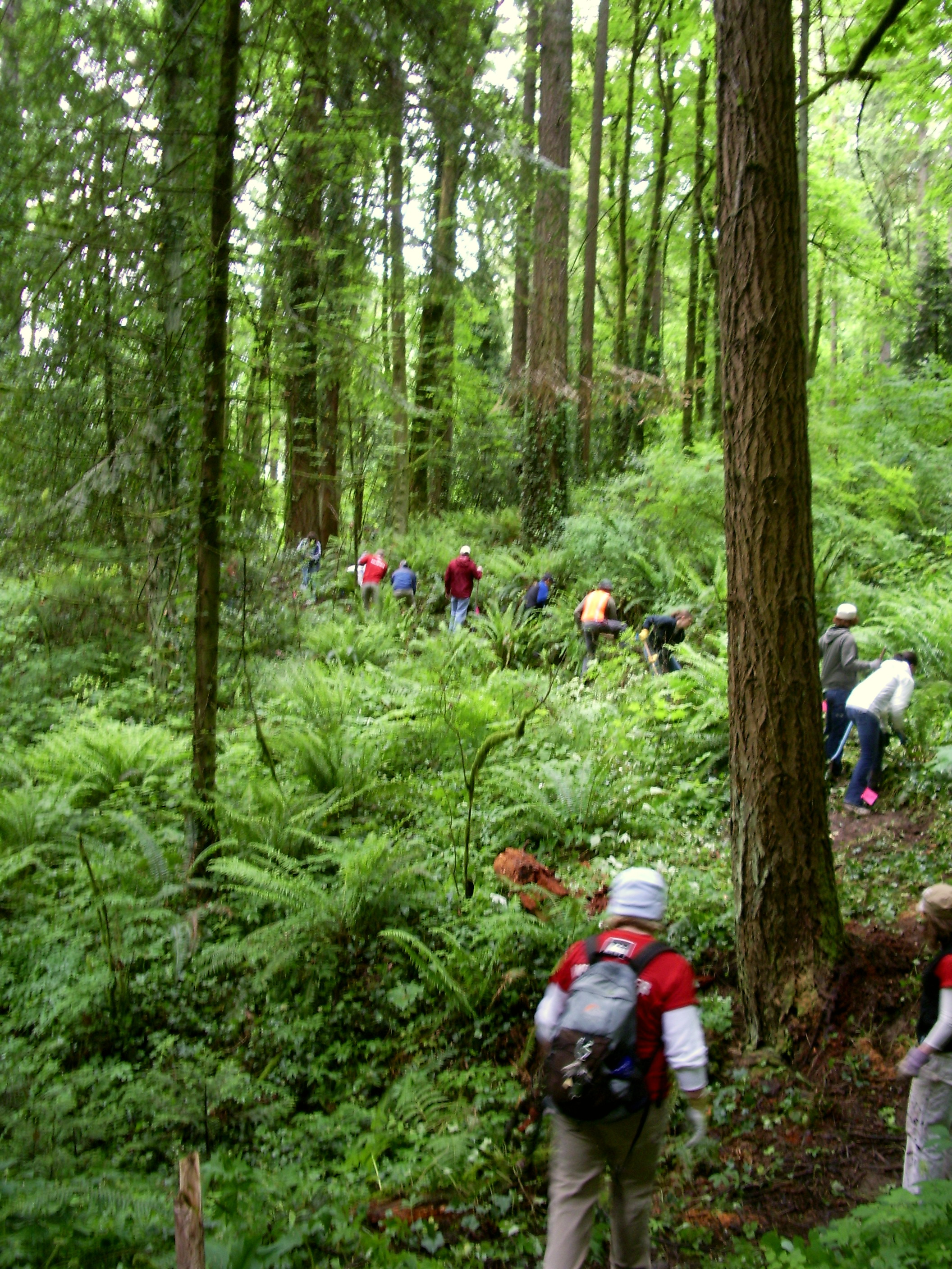 Forest Park of Portland, Oregon attracts thousands of volunteer hours each year. Here a volunteer crew reroutes a steep portion of the major trail through Forest Park, the Wildwood Trail, to a more moderate grade which is less prone to runoff water and erosion. Ferns from the new route were moved to the abandoned path to help it stabilize as well as discourage human usage. The new tread is pitched laterally 2% to 3% to minimize standing water. The topsoil was particularly thick here, averaging 12 to 15 cm (5 to 6 inches) in depth. It was removed (and spread around nearby trees) to provide a stable, all-weather tread which also will discourage vegetation growth in the path. The Forest Park Conservancy organizes two days of Stewardship which attract 200 volunteers each day for 5 work hours per person. For ten other months, anywhere from 5 to 25 people volunteer on the third Saturday of the month, plus there are opportunities each Thursday. Americorps has several part time employees working in the park throughout the summer. The Portland Parks Department provides tools and materials. Several local businesses donate food and beverages and local sportswear companies provide merchandise gifts to reward participating volunteers.